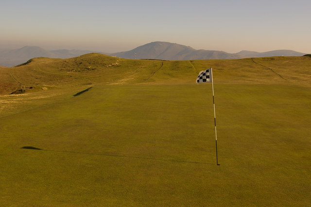 The 10th hole, Church Stretton Golf Club, Shropshire, England